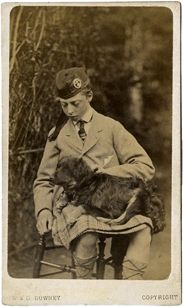 Prince Leopold, Duke of Albany